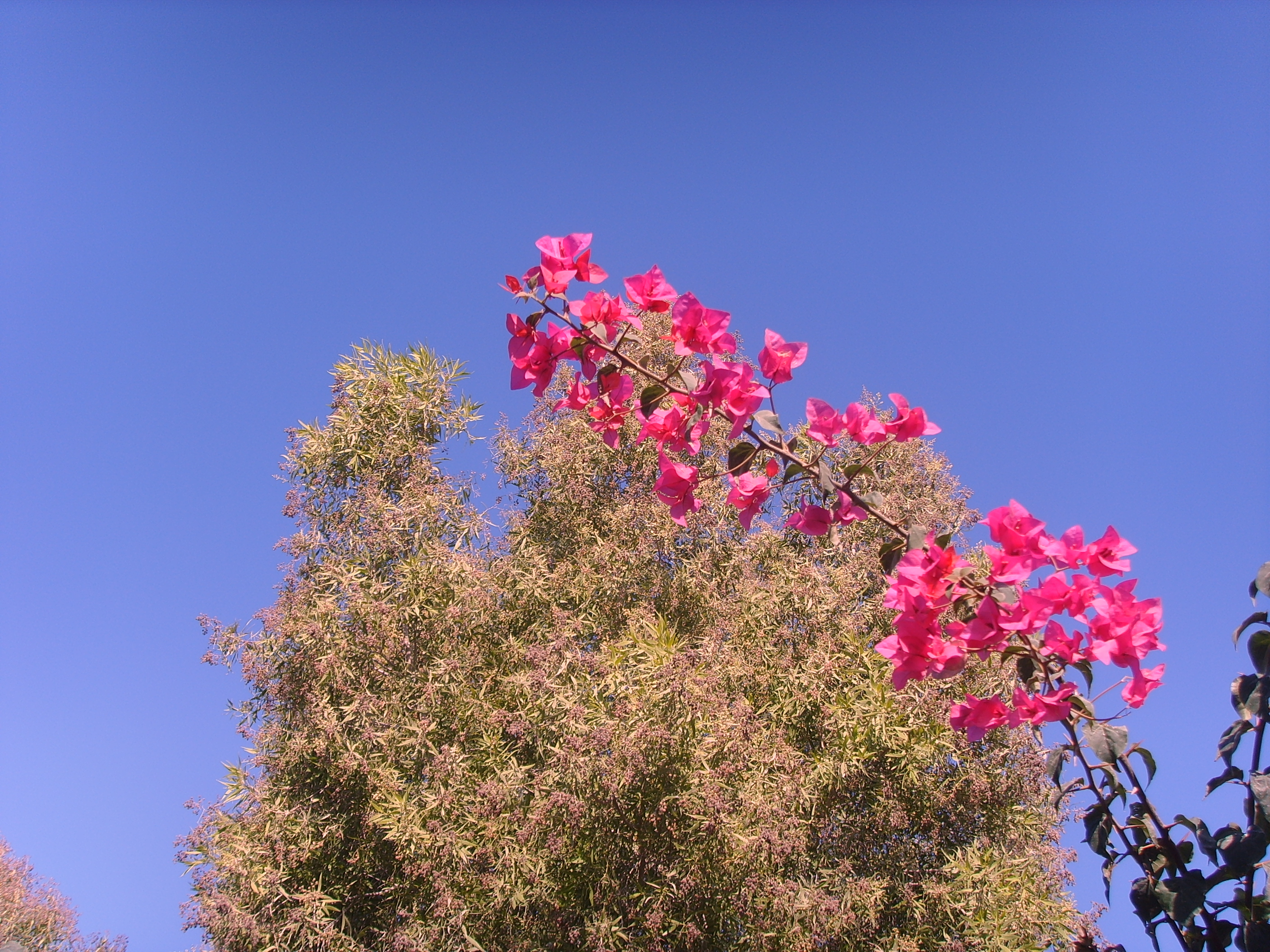 A kind of Bougainville a trees with flower-like spring leaves near its flowers in Qeshm Island.